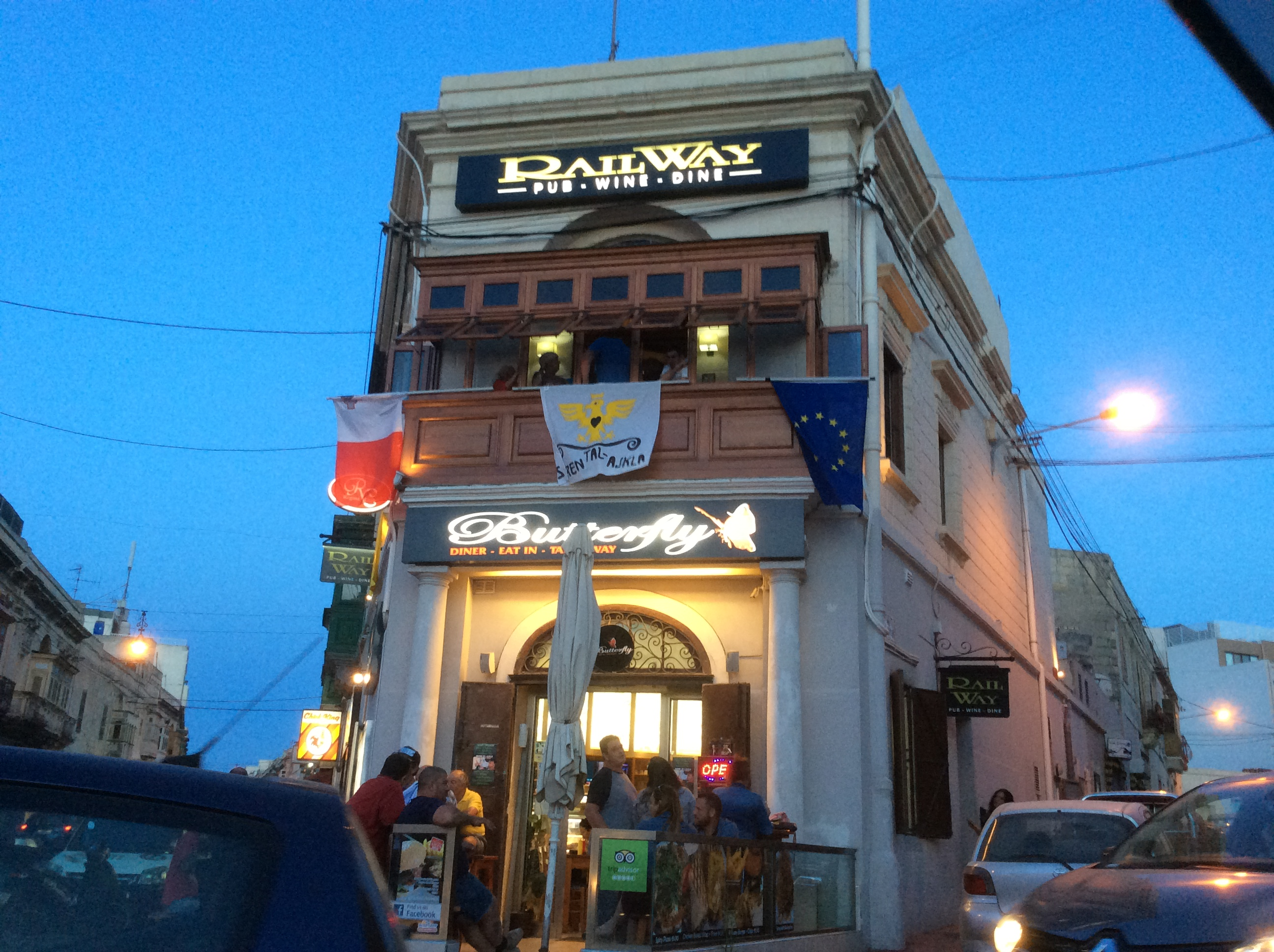 Nazzareno Bonnici at Butterfly